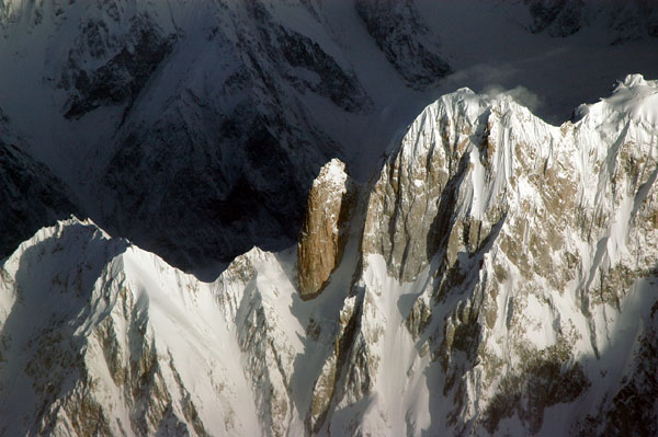 An aerial photo of Bublimotin (center), a rock spire on a high ridge of the Batura Muztagh, in Pakistan. Hunza Peak is the broader feature just to the right.